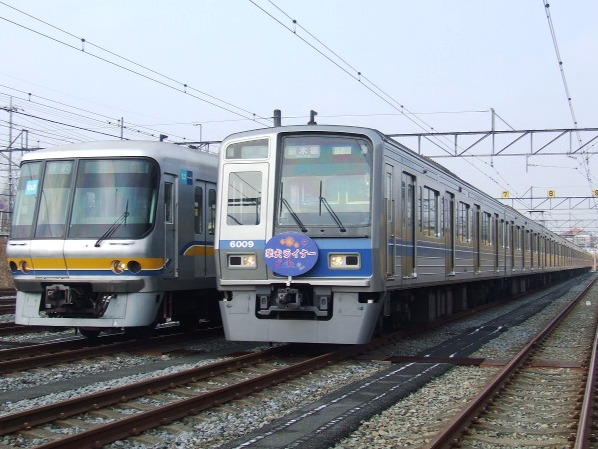 [LEFT] Series 07, YURAKUCHO LINE, Tokyo Metro, Japan [RIGHT] Series 6000 Stainless Steel Car, Seibu Railway, Japan